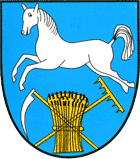 Warszowice COA